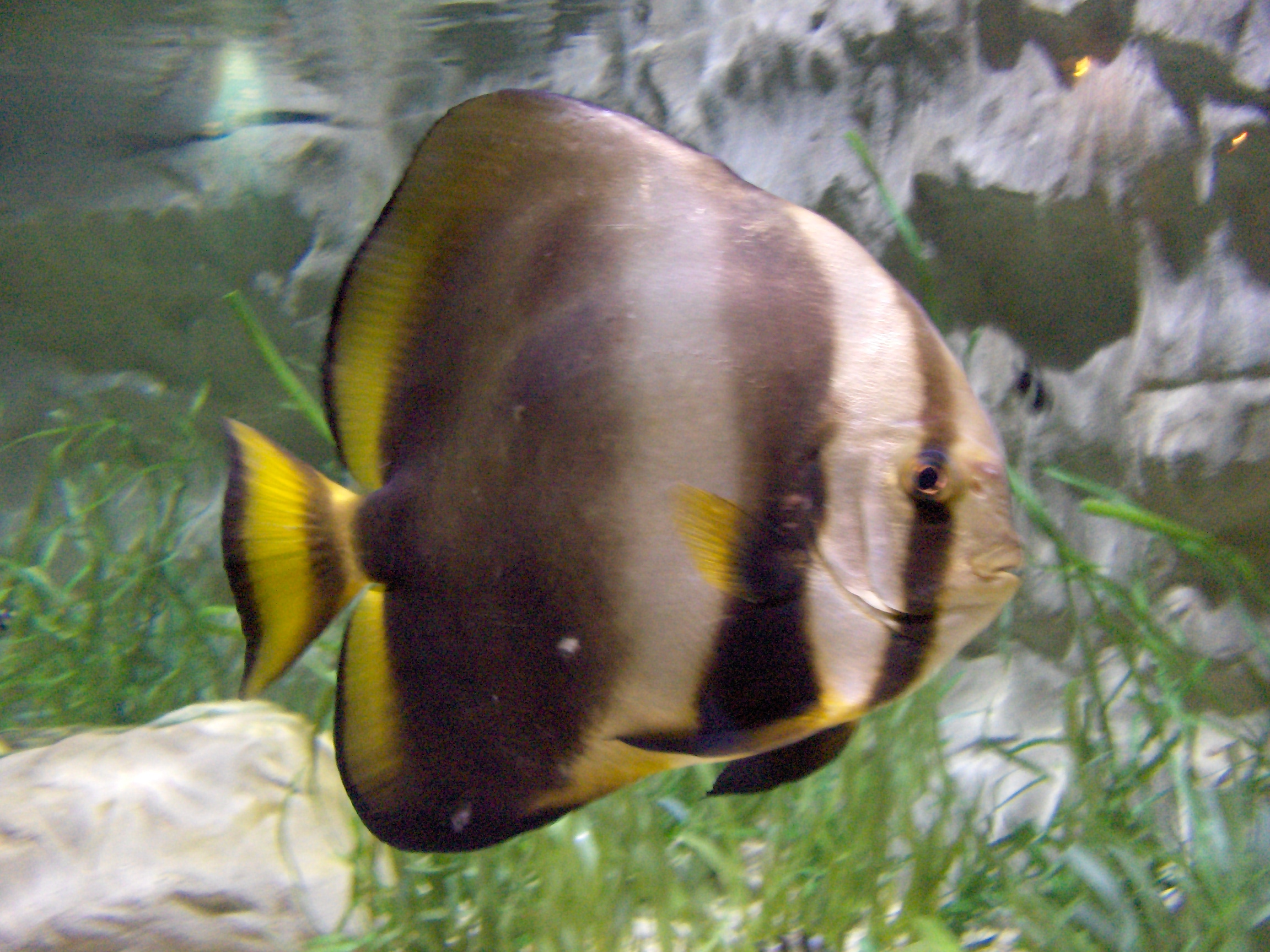 Platax orbicularis at the Sea Life Helsinki oceanarium